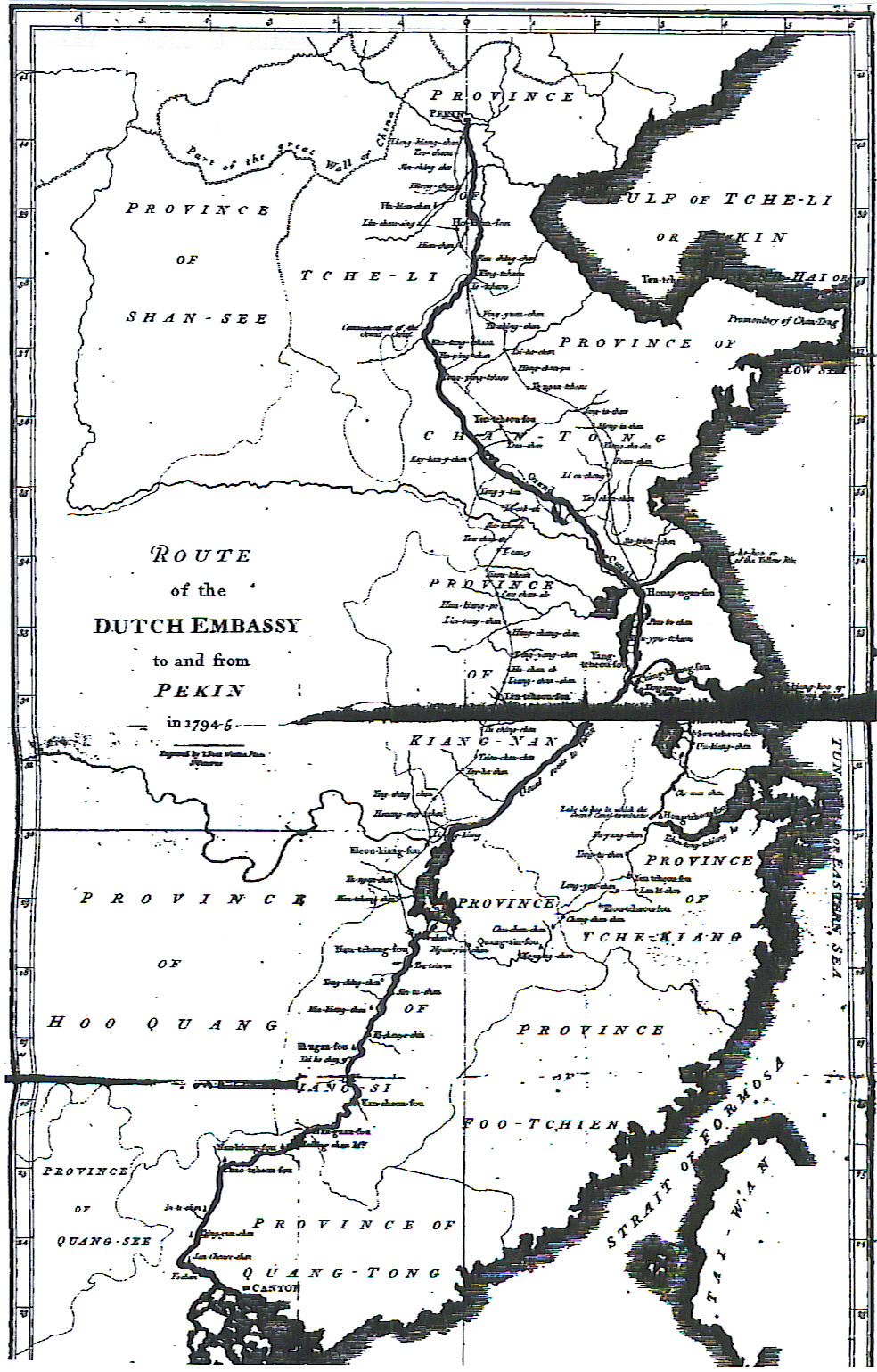 Map showing route of Titsingh embassy to the Imperial Court in Peiking, traveling from Canton and returning, 1794-1795; an illustrative plate in A. E. van Braam Houckgeest's An authentic account of the embassy of the Dutch East-India company, to the court of the emperor of China, in the years 1974 and 1795 (1797), which was published in London by R. Phillips. This map was first published in van Braam's «Voyage de l'ambassade de la Compagnie des Indes Orientales hollandaises vers l'empereur de la Chine, dans les années 1794 et 1795» (1797), which was published in Philadelphia by M.L.E. Moreau de Saint-Méry. This version of that map was reproduced in the 1798 English translation of that book.